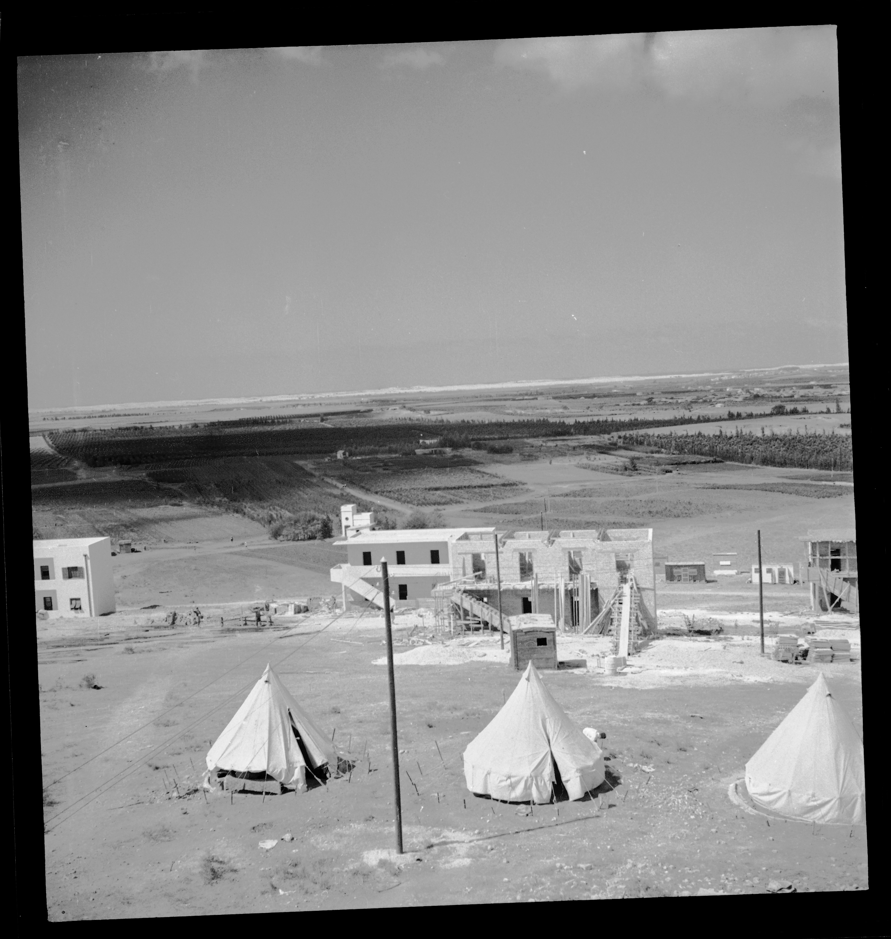 Photo of the Tents and the children house of Givat Brenner